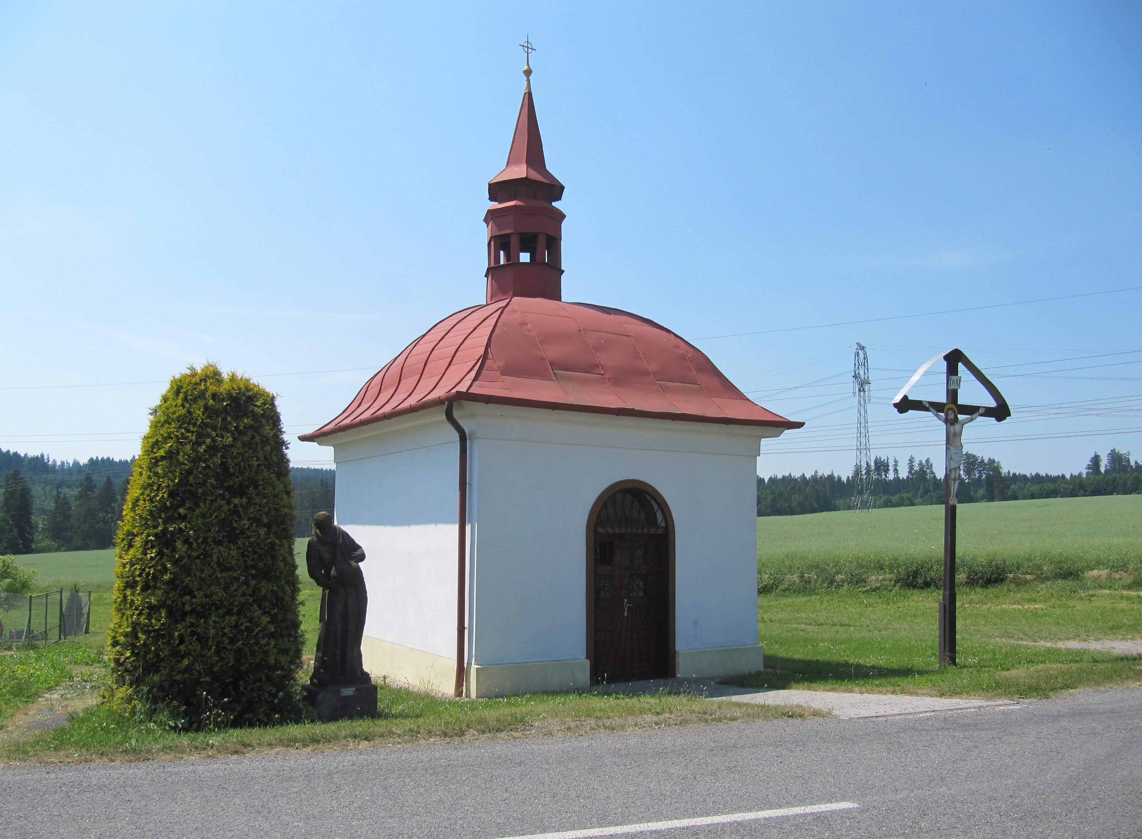 Větřkovice, Opava District, Czech Republic, part Nové Vrbno.